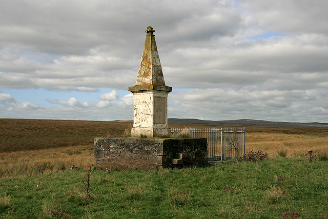 Monument and martyr's grave on Airds Moss. This monument on the bleak moorland landscape of Airds Moss is dedicated to the Rev'd Richard Cameron and 8 fellow Covenanters who were killed and buried at this spot in July 1680. The railed enclosure to the right contains a grave slab 982502.